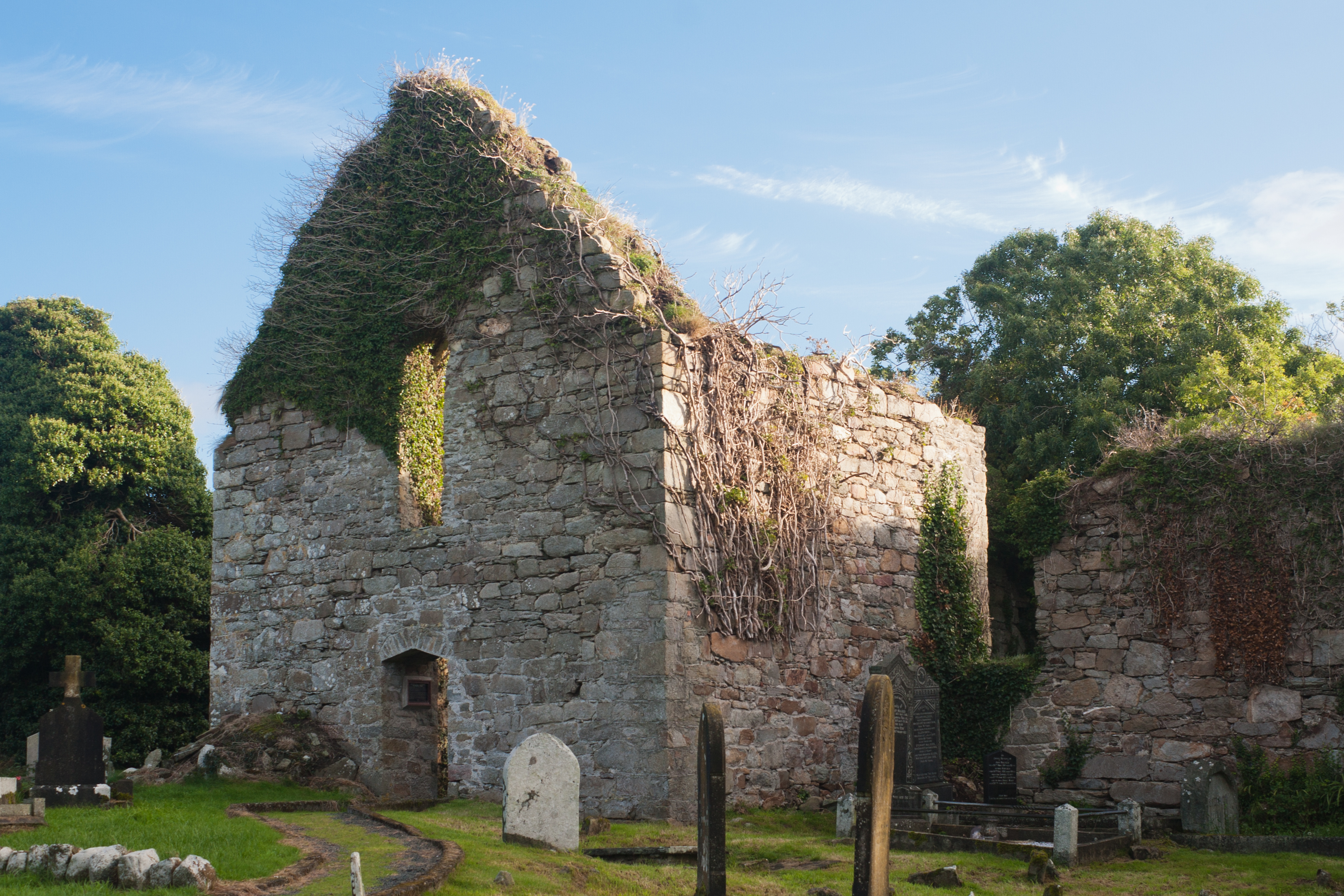 South-west view of the nave.